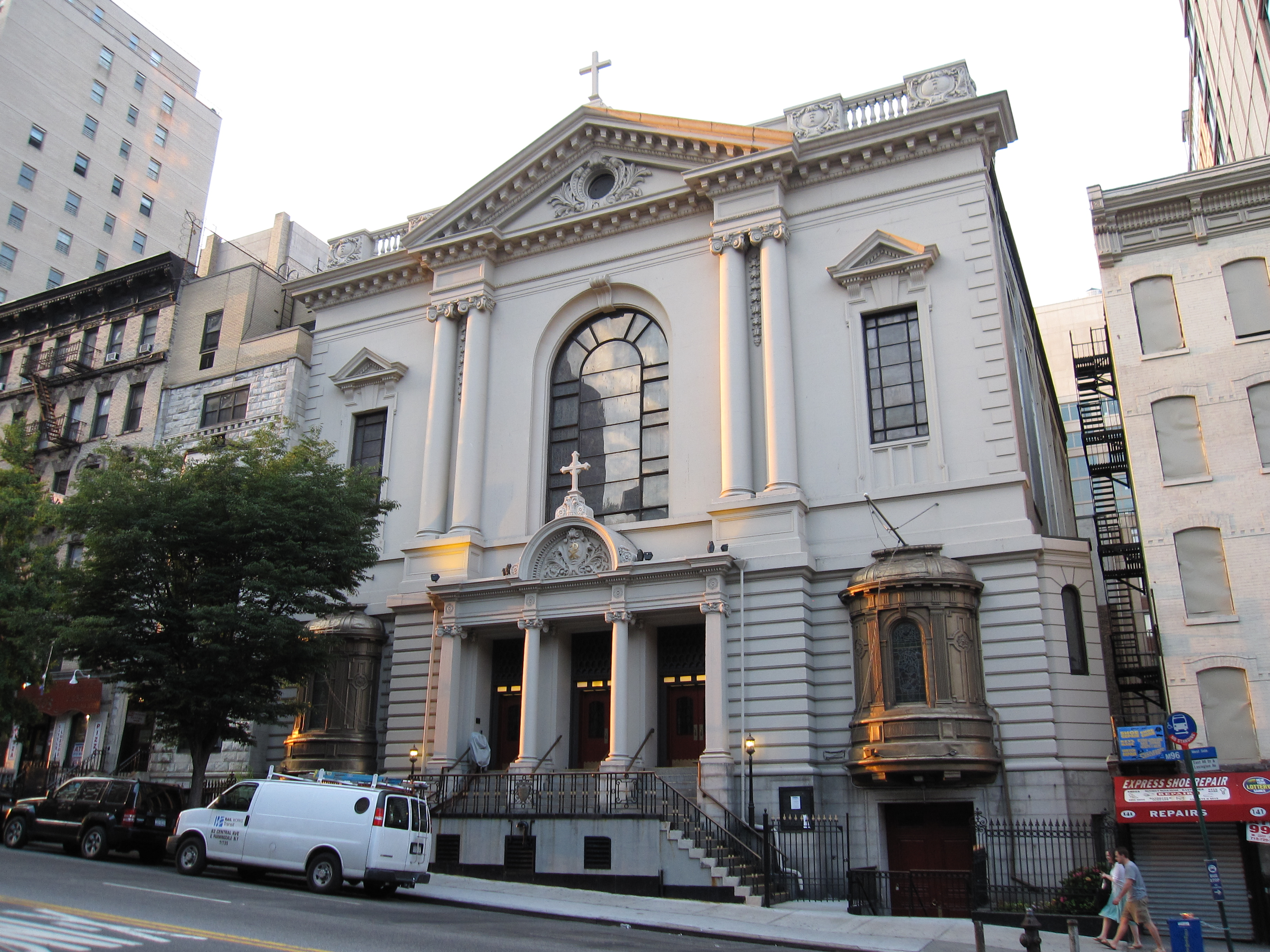 Saint Francis de Sales Roman Catholic Church on East 96th Street, New York